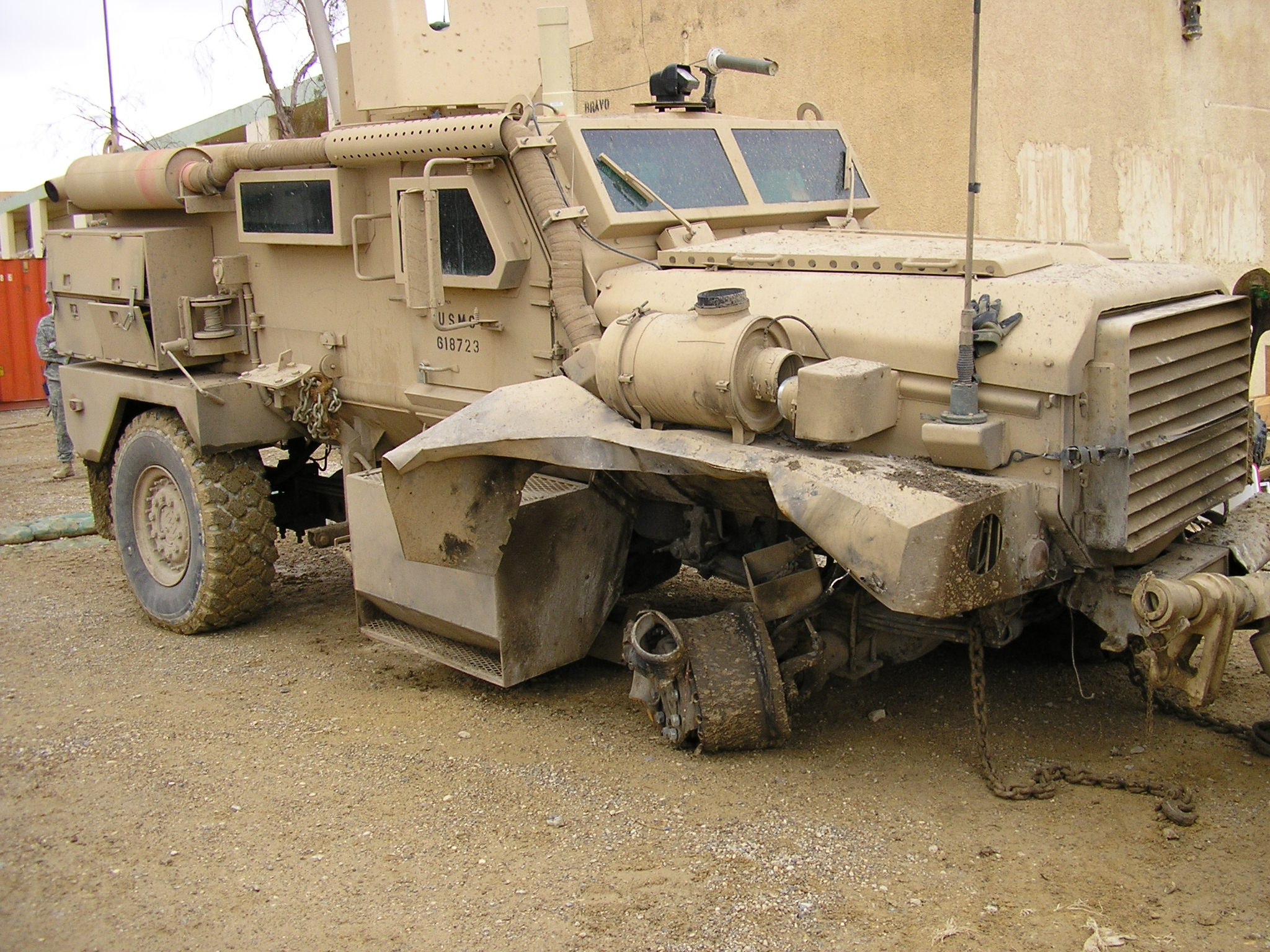 Cougar hit with mine and driven at 20 mph by crew back to safe area on three tires and a rim. Crew sustained mild concussions. Description by the photographer, provided to Force Protection, Inc.: "Just wanted to write a quick note to all of you at your company to thank you for the hard work you put into the Cougar vehicle. We are stationed in [omitted] Iraq and about 2 weeks ago our JERRV/Cougar ran over [deleted] mine coming back from a call downtown. It had been raining that night and the mines were placed in a hole filled with water. Right after the explosion, the Cougar was driven for two miles on the three remaining tires at speeds in excess of 20 mph so that we could make it to a safe area. Once we got to the safe area we were able to survey the damage and everyone was amazed how far the vehicle had driven. The three of us inside were all okay other than slight concussions and a headache that lasted a few days. We know that if we had been in another type of vehicle that the outcome would have been much worse. We were also able to get a replacement Cougar within 24 hours. Thank you for everything and keep up the good work. Sgt Chris Clair, USMC EOD Team Somewhere in Iraq April 2006"